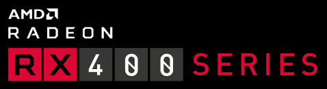 Unofficial logo for the RX 400 series made using official marketing materials.